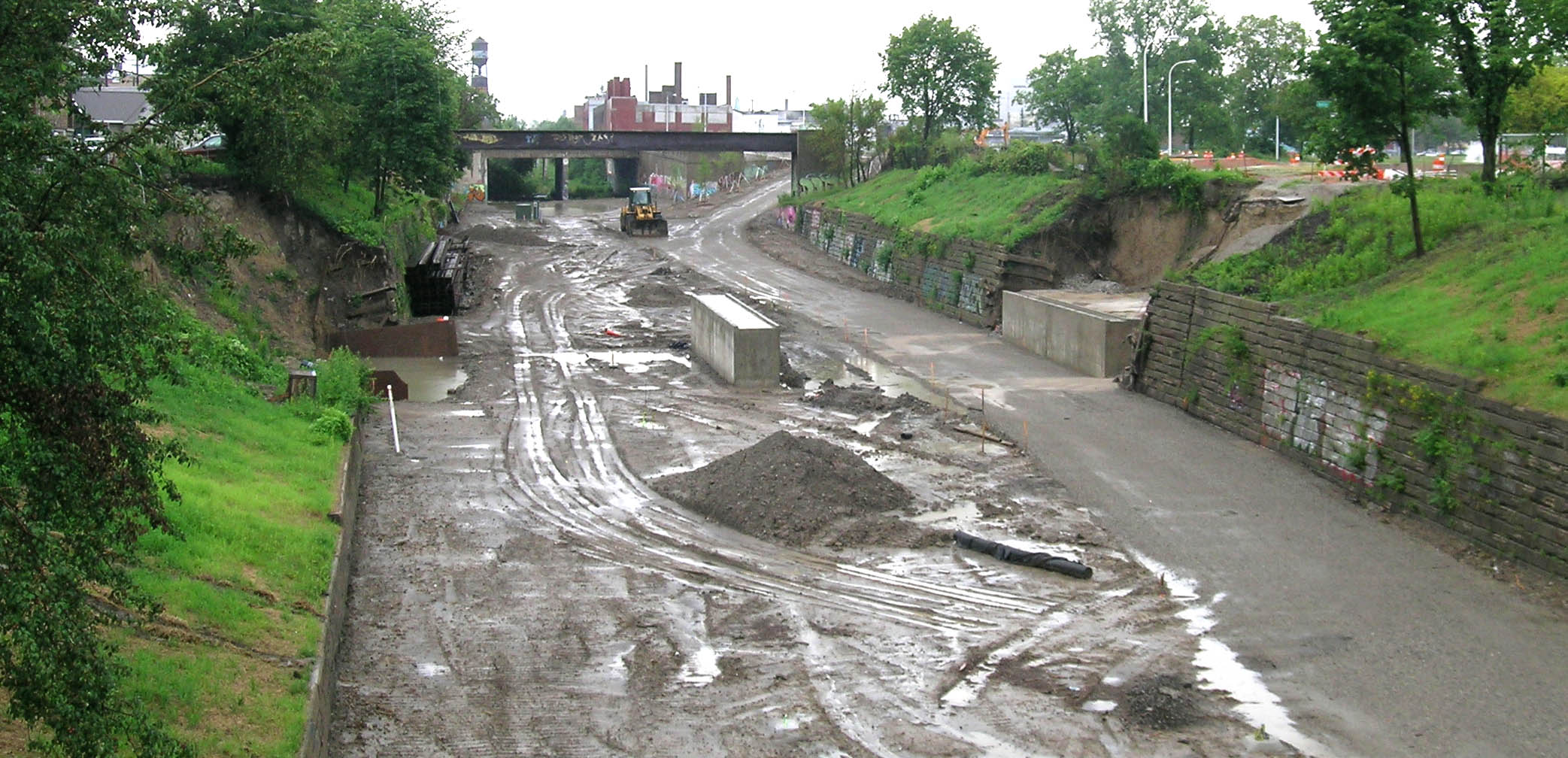 Site of Antietam St Bridge over old Grand Trunk Railroad tracks, Detroit MI